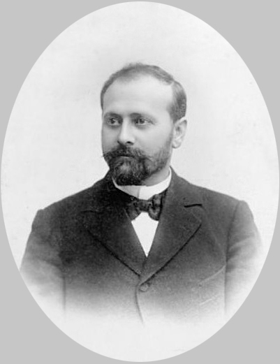 Georgian composer Meliton Balanchivadze in the late 19th century. The father of George Balanchine.